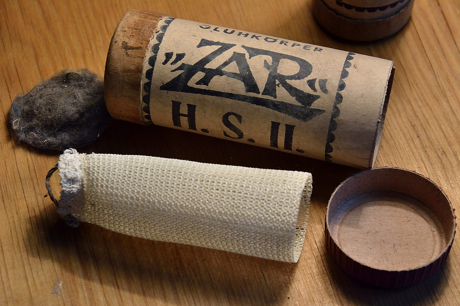 A gas mantle produced in Neutomischel (Nowy Tomyśl) in Warthegau on occupied Polish teriitory during WWII.